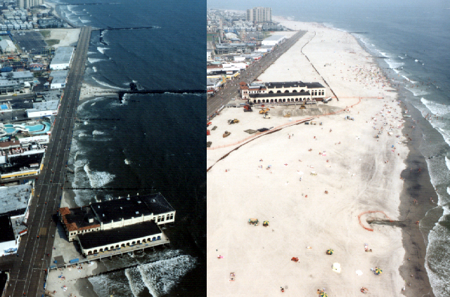 The Great Egg Harbor and Peck Beach, (Ocean City) project was first constructed in 1992 and has been periodically nourished over the years resulting in a wider beach. The project is designed to reduce damages from coastal storms. It is an aerial shot of the Ocean City boardwalk and beach. On the left side is before the beach nourishment project, and on the right is after the project is completed.